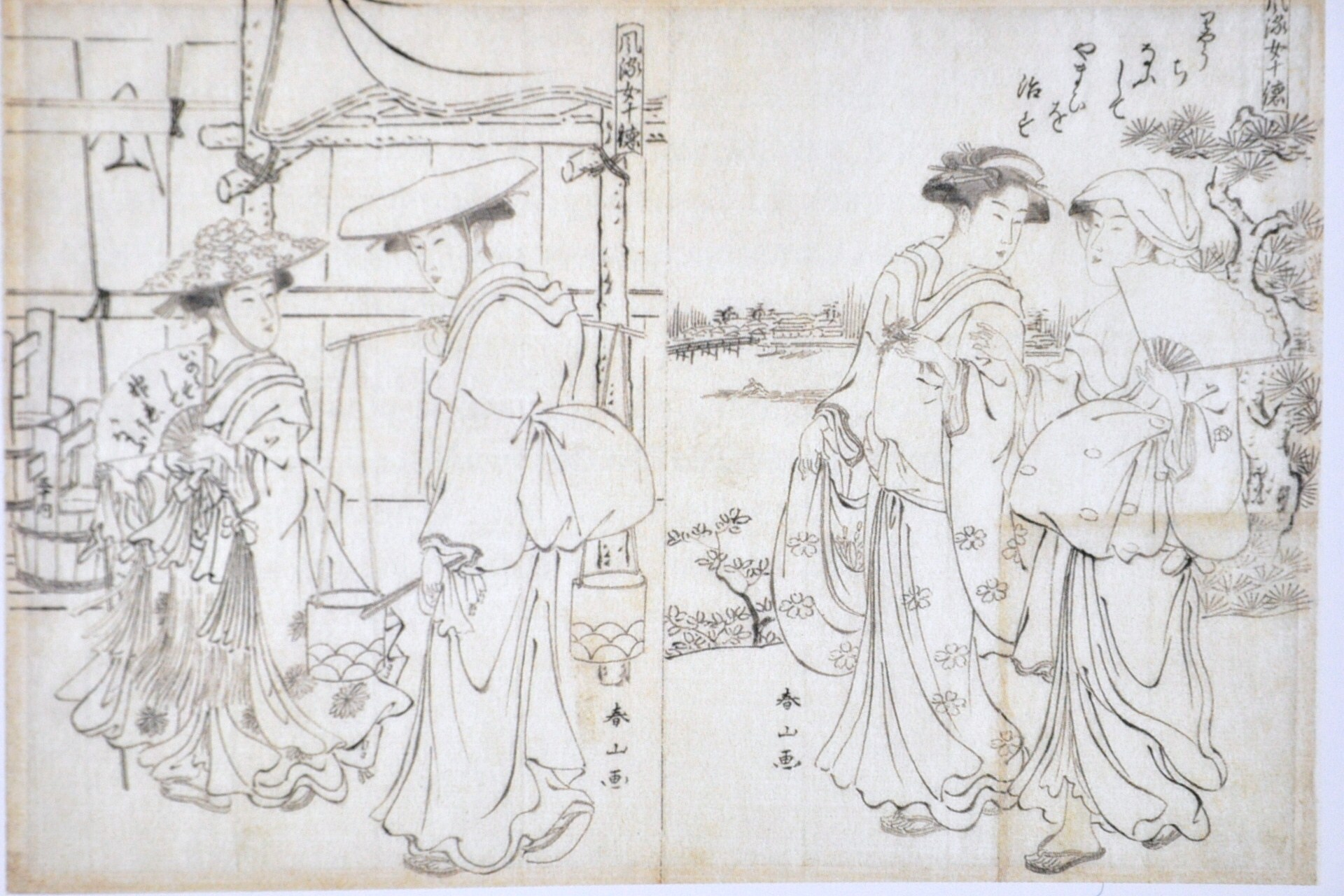 Shita-e (preparatory drawing) by Katsukawa Shunzan: Furyû Onna Jûtoku (The ten virtues of refined women)